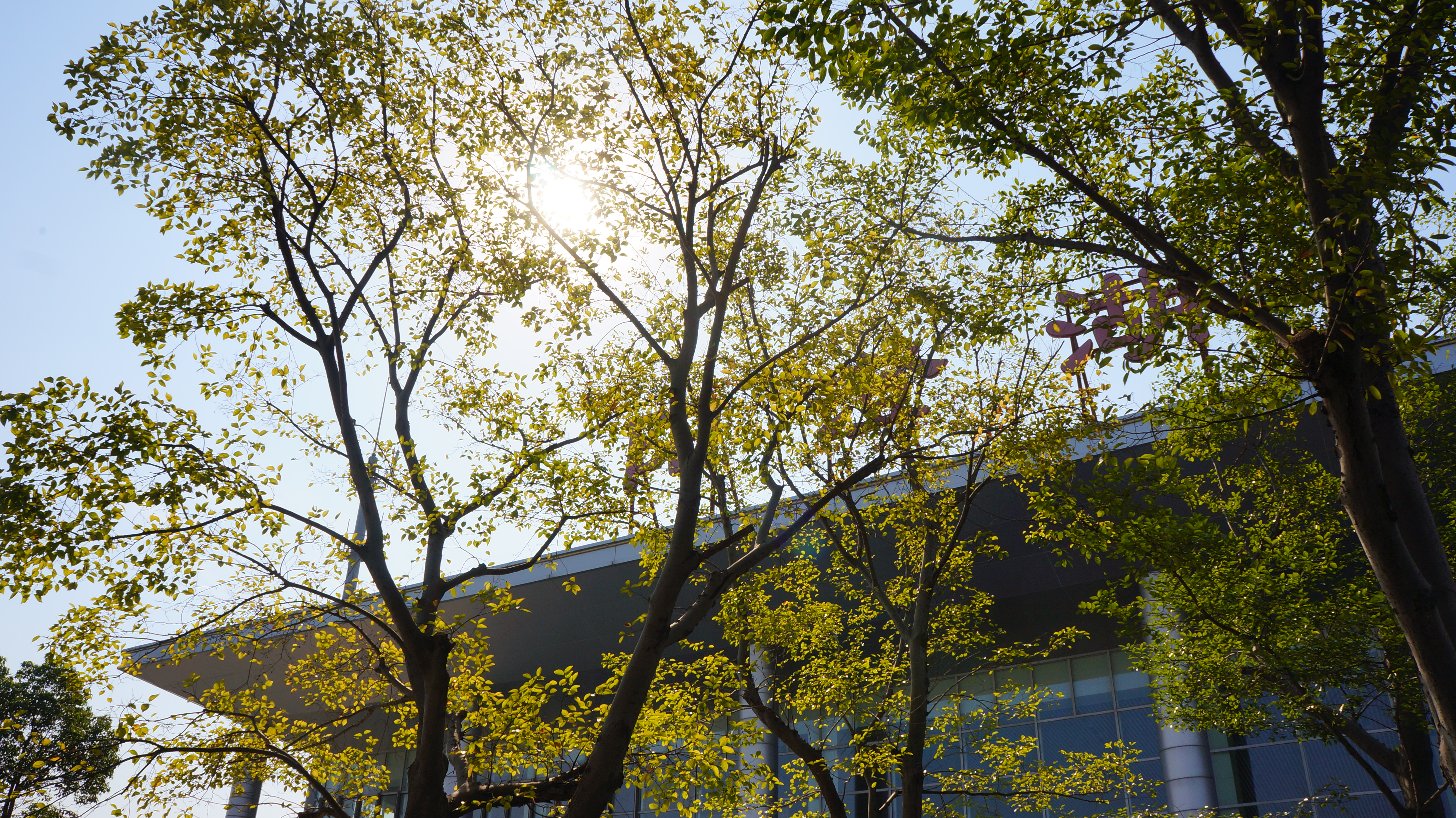 Yangchenghu Railway Station in Yangcheng Lake Park